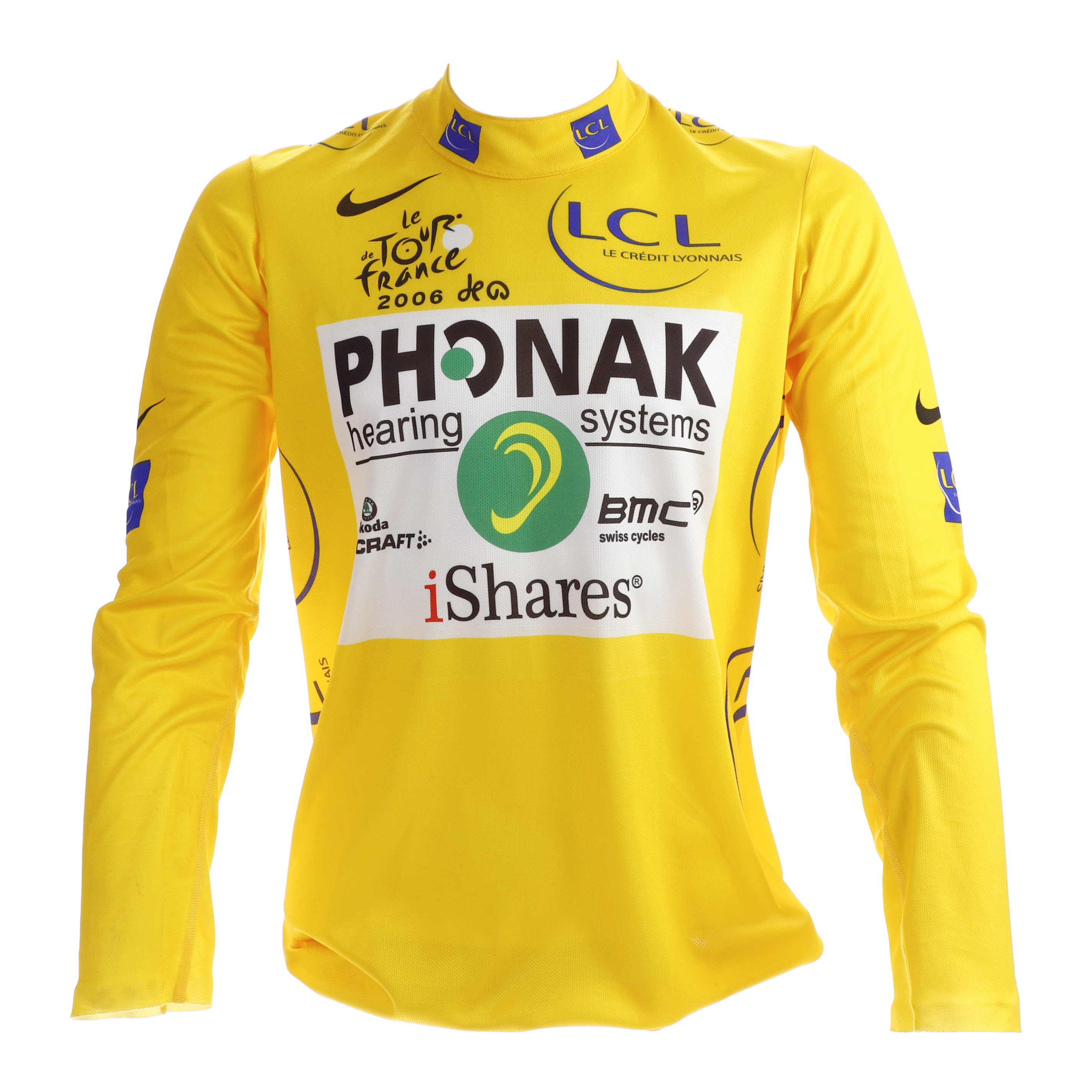 Paris, 23 July 2006. In the 2006 Tour de France, Floyd Landis cycled from a hopeless position to a final victory. Even if only for a short time, because two days after Paris he apparently tested positive in a doping test on 20 July in Morzine. That was the day of his famous monster breakaway. After having suffered a problem the day before in the stage leading to La Toussuire, the American went on the attack with a 128 kilometre ascent still ahead of him. Landis thus heroically narrowed his gap with the leader Oscar Pereiro to less than one minute. Landis clinched the yellow jersey during the time trial on the penultimate day but this success was short-lived, as Floyd Landis has entered the history books as the first Tour de France winner to lose his triumph because of doping.